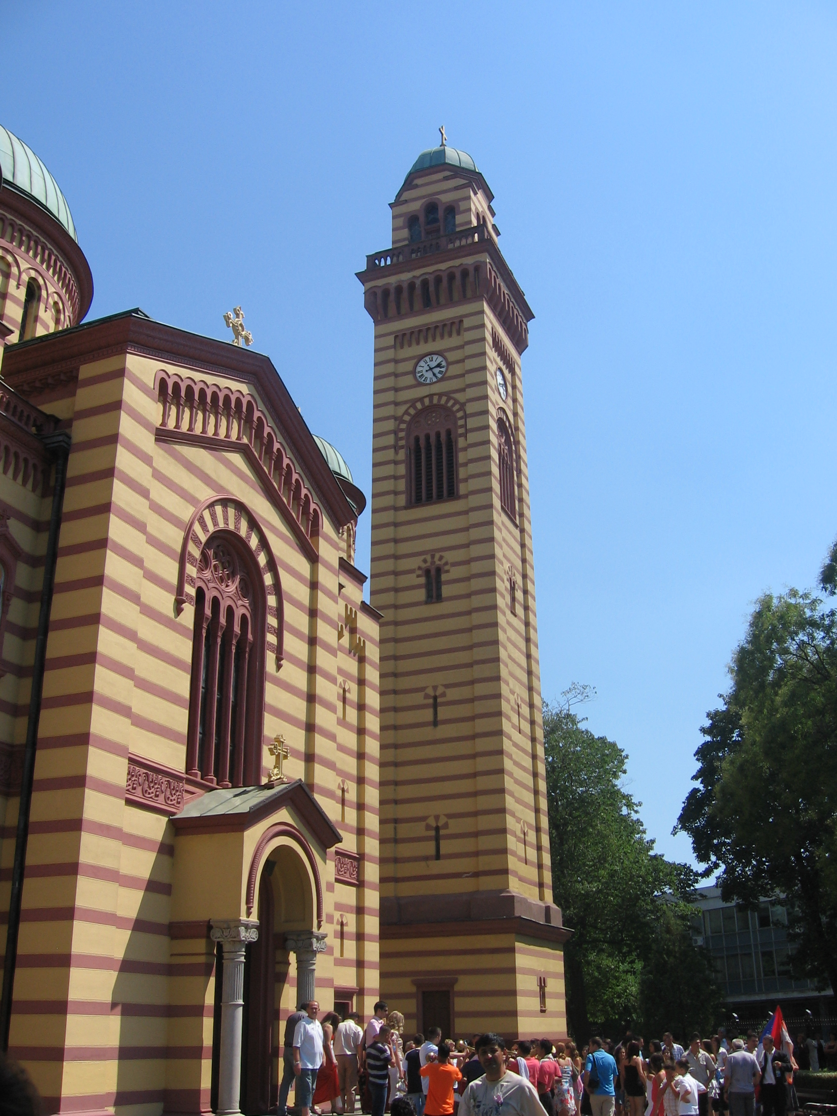 Central Church in Jagodina